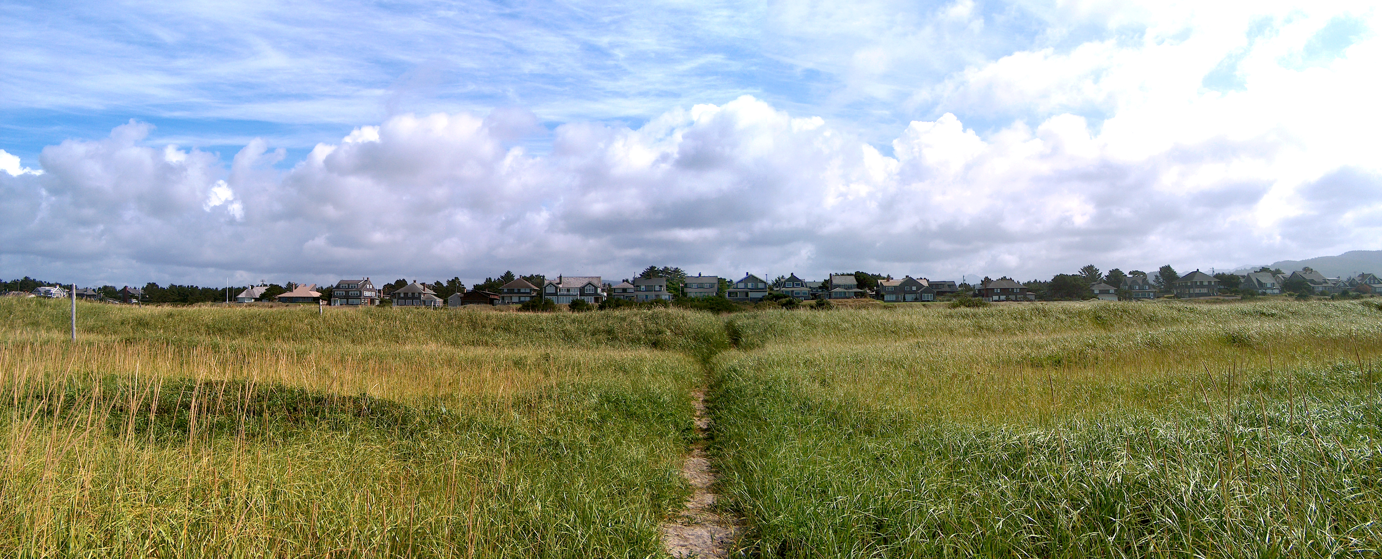 Historic Gin Ridge homes in Gearhart, Oregon on South Ocean Avenue. A Panoramic photo looking toward the houses from the beach.